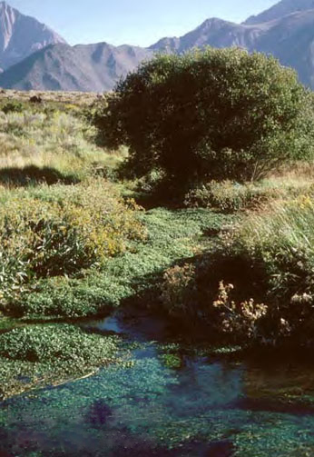 Typical habitat for the Owens tui chub, DFG file photograph